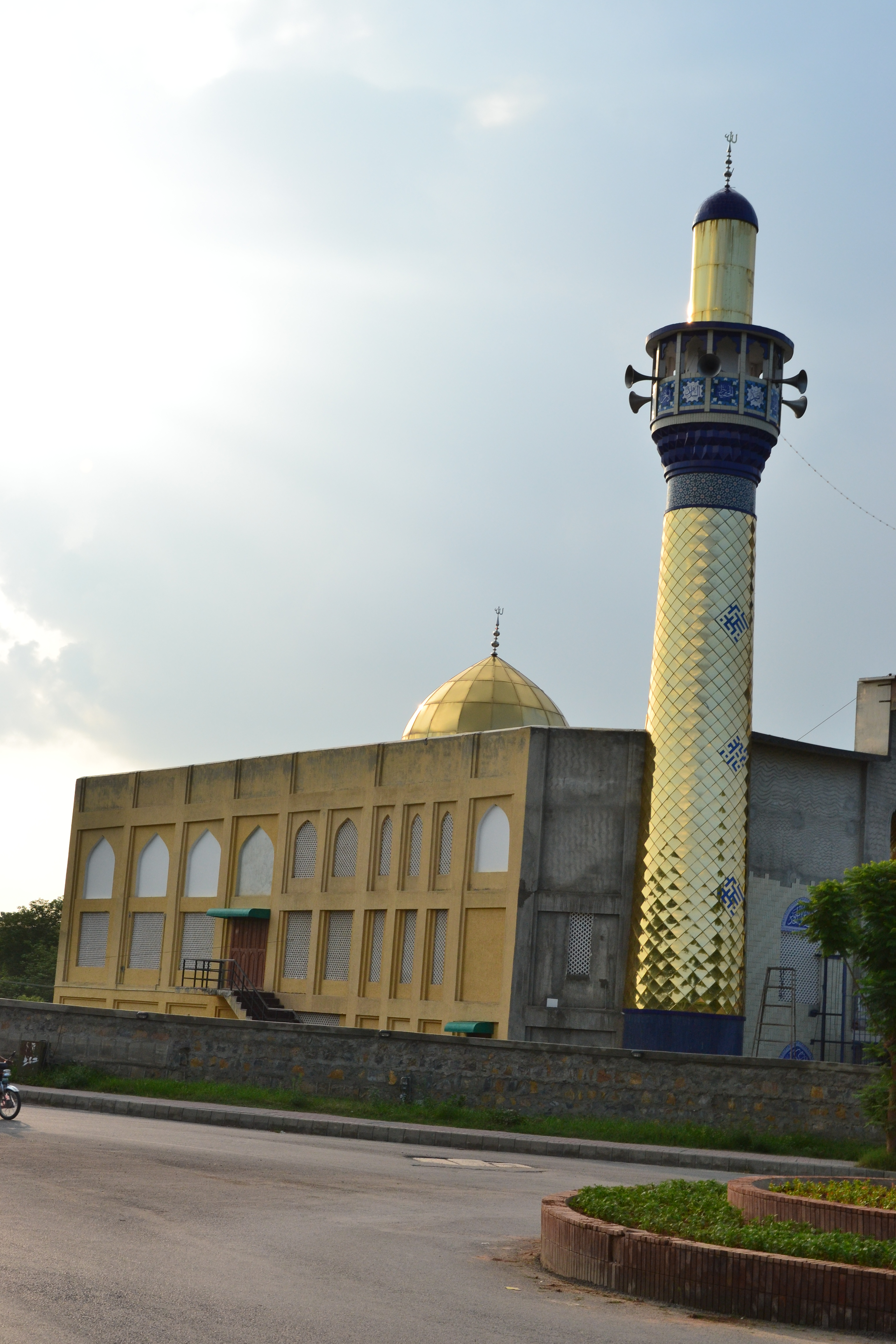 Imambara, Islamabad Pakistan